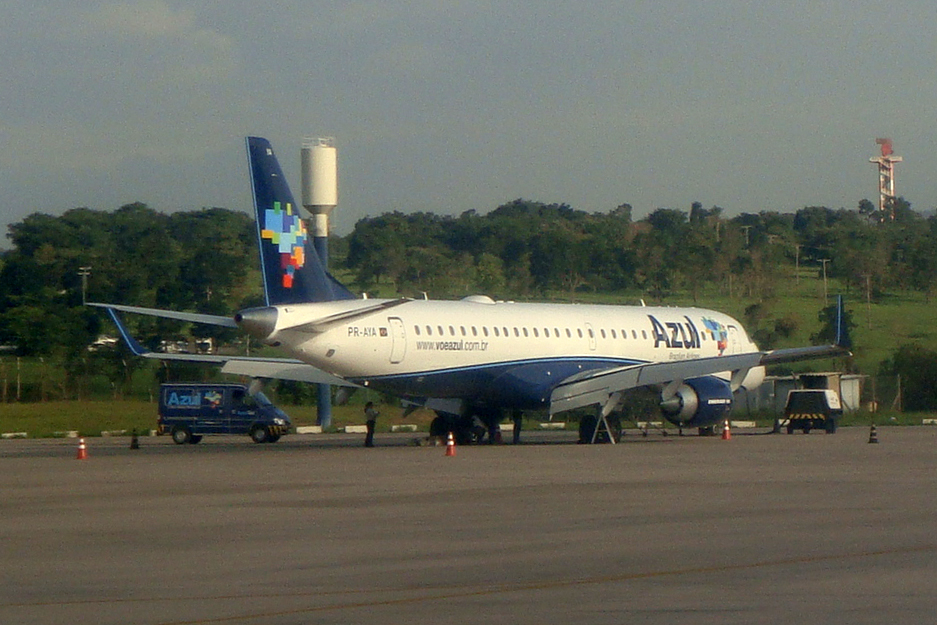 Azul Brazilian Airlines jet (Embraer 190) at Campinas International Airport (VCP), Brazil. Edited with Photoshop Elements 4. Date 2009-01-27